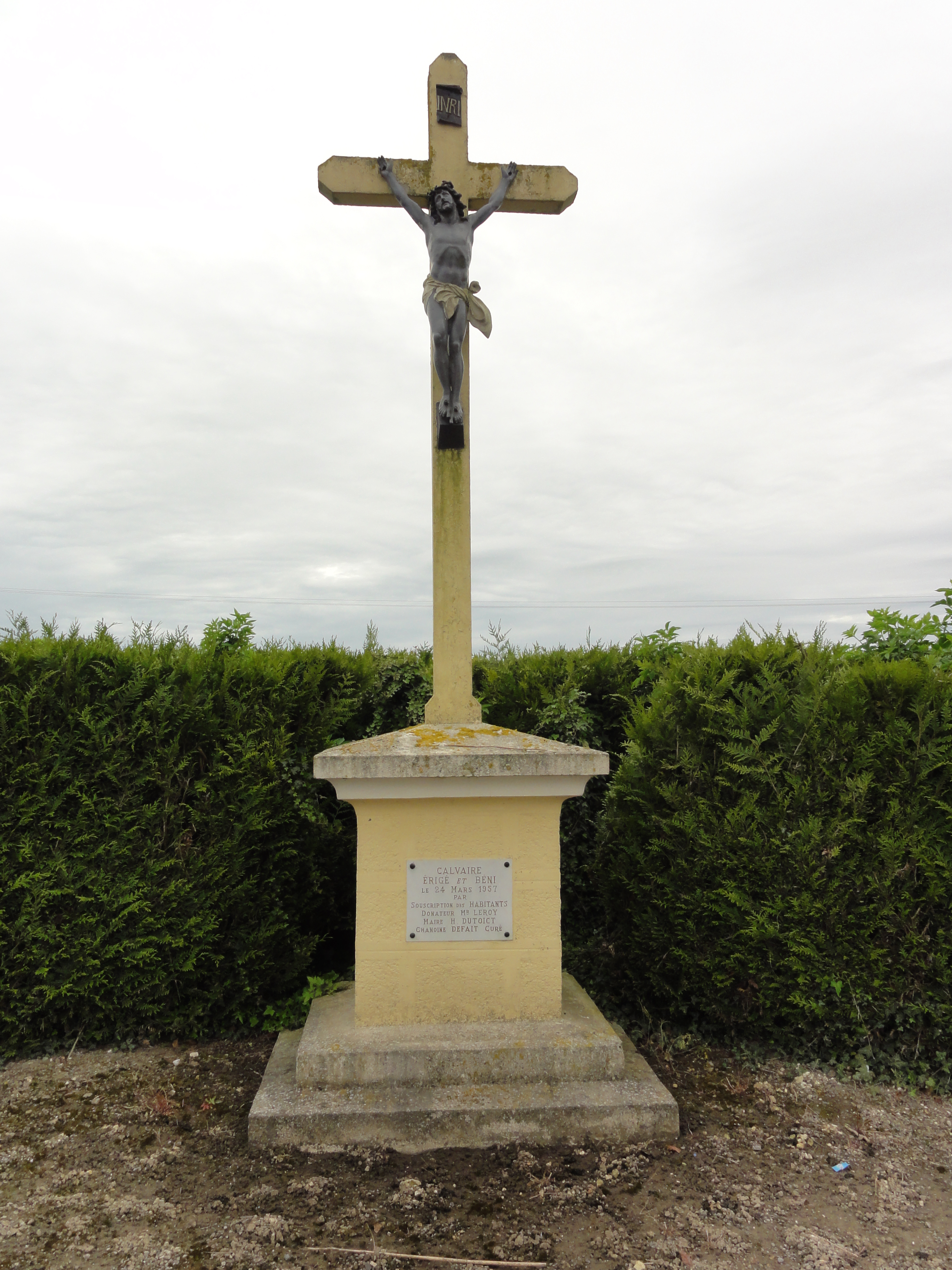 Nouvion-et-Catillon (Aisne) calvaire Pont-à Busy